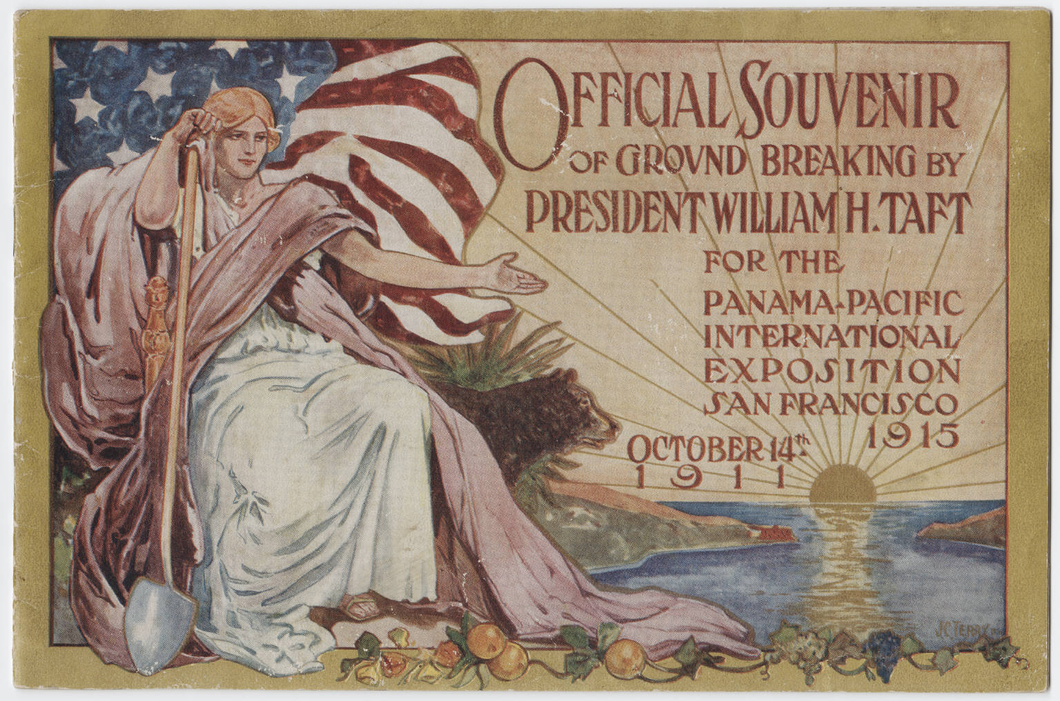 Front cover illustration for the official souvenir of groundbreaking by President William Howard Taft at the Panama-Pacific International Exposition, San Francisco, California, of 1915. Groundbreaking took place in 1911. Blair-Murdock Co., publisher